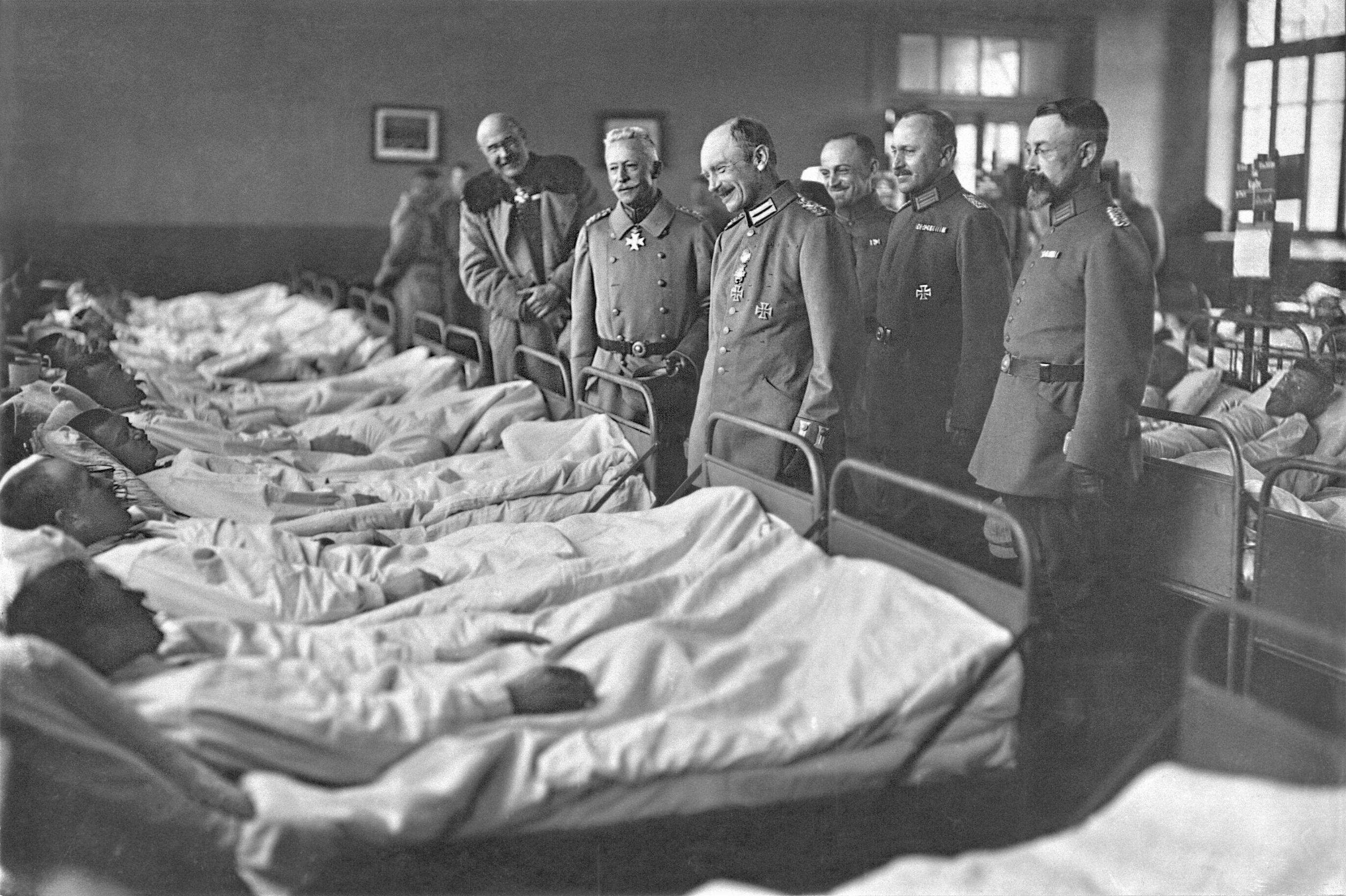 The King of Saxony at the Western Front. The king in a field hospital talking to wounded saxonian soldiers. March 1917